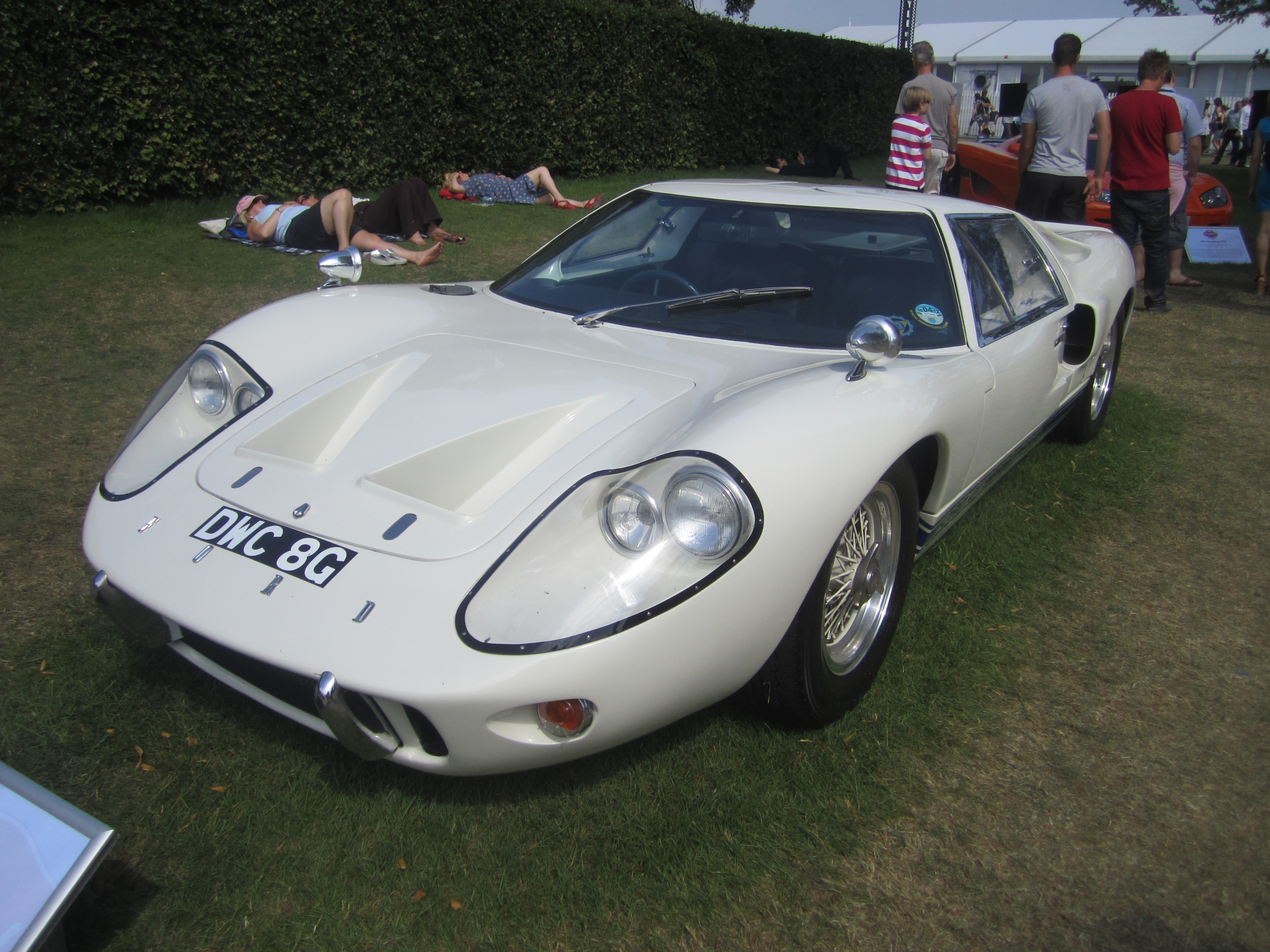 Taken at the Goodwood Festival of Speed England 2011-Cartier Style Et Luxe Concours D'elegance